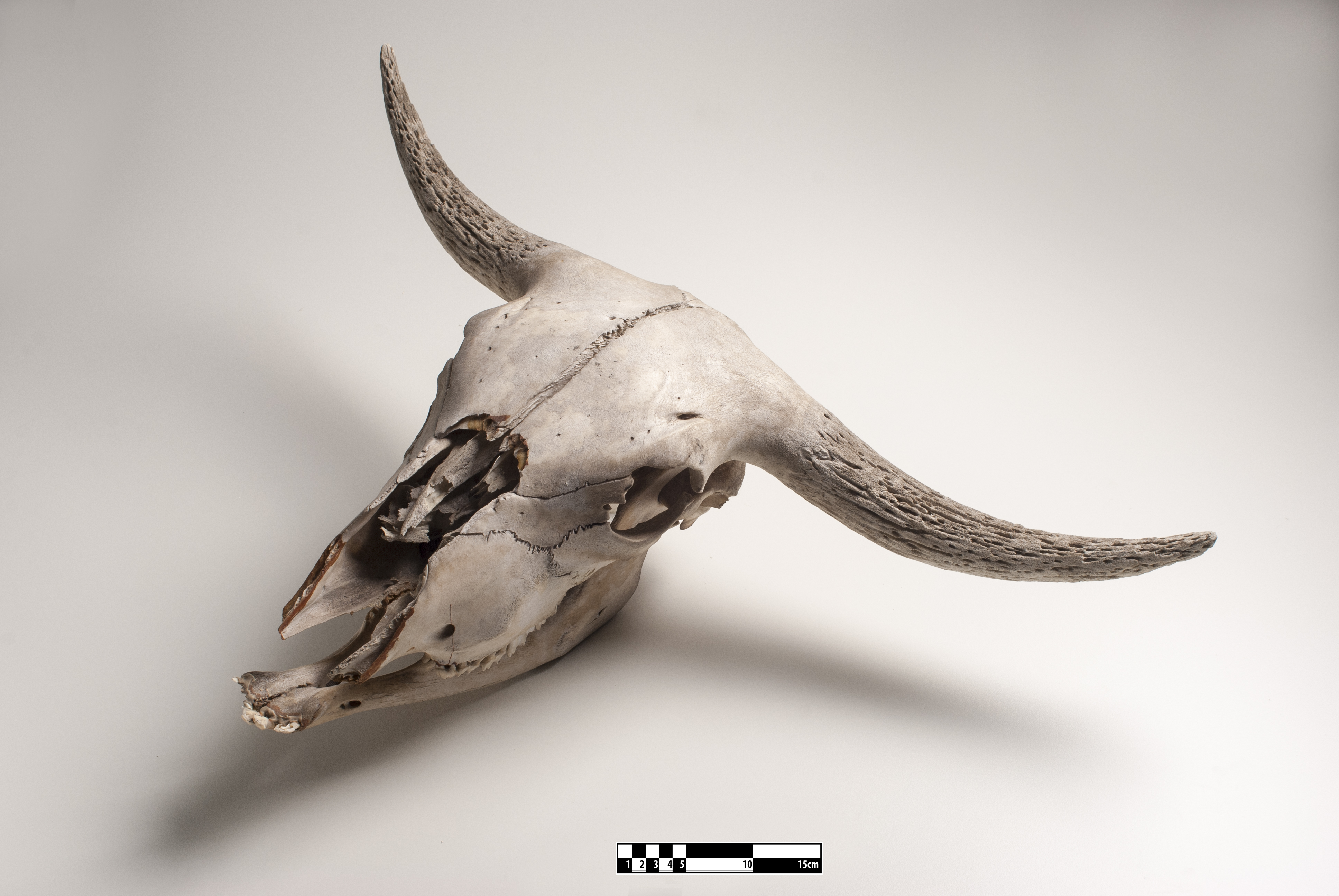 Bovine skull. Bovinae Specimen of bovine skull prepared by the bone maceration technique and on display at the Museum of Veterinary Anatomy, FMVZ USP. This file was published as the result of a partnership between the Museum of Veterinary Anatomy FMVZ USP, the RIDC NeuroMat and the Wikimedia Community User Group Brasil. This GLAM project is reported. Photography: Museum of Veterinary Anatomy FMVZ USP.